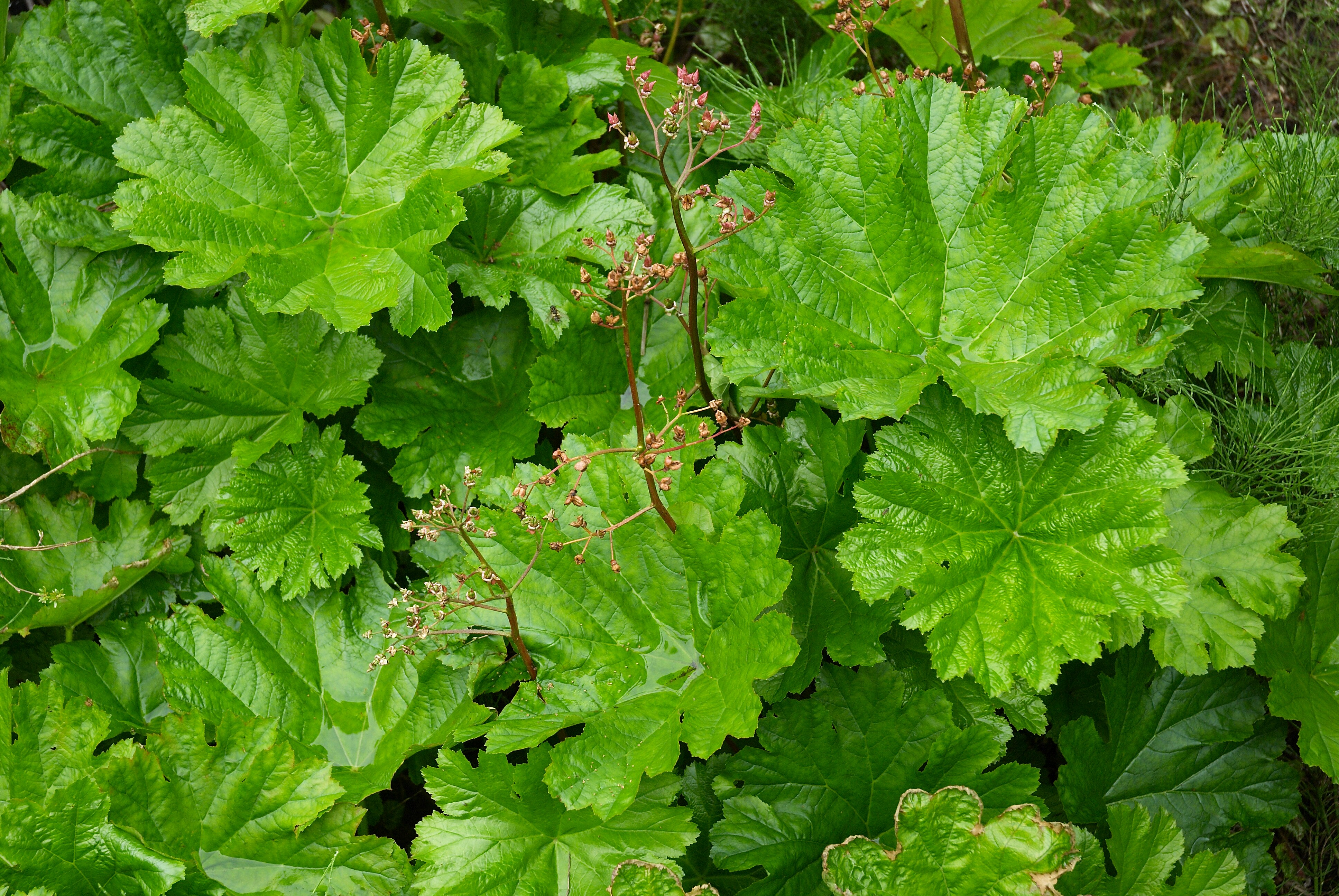 Indian rhubarb or Umbrella plant